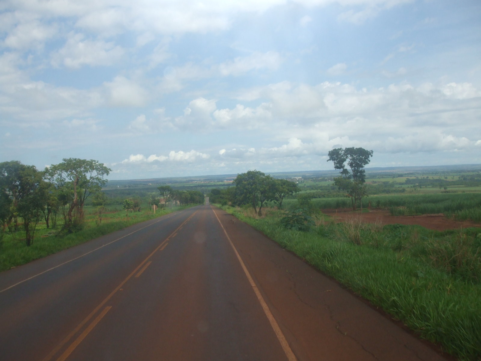 Rodovia MG 427 prox. a Conc das Alagoas